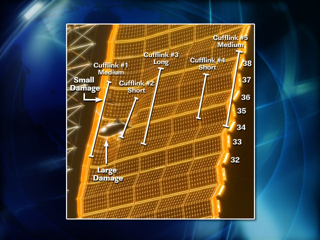 STS-120 Mission Status Briefing Graphics: 11.02.07, Derek Hassmann, STS-120 Lead ISS Flight Director - Cufflink Locations